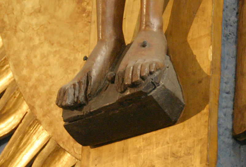 detail of „Gero crucifix“, late 10. century, Cologne Cathedral, Germany author: Elke Wetzig (elya) date: 2006-01-14